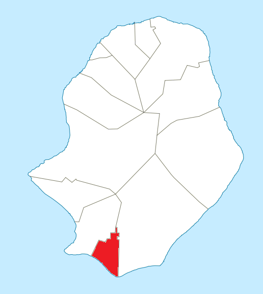 Location map for Vaiea, Niue. Based on file:Niue location map.svg.